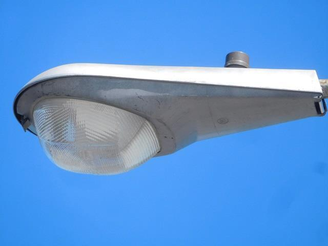 History of street lighting